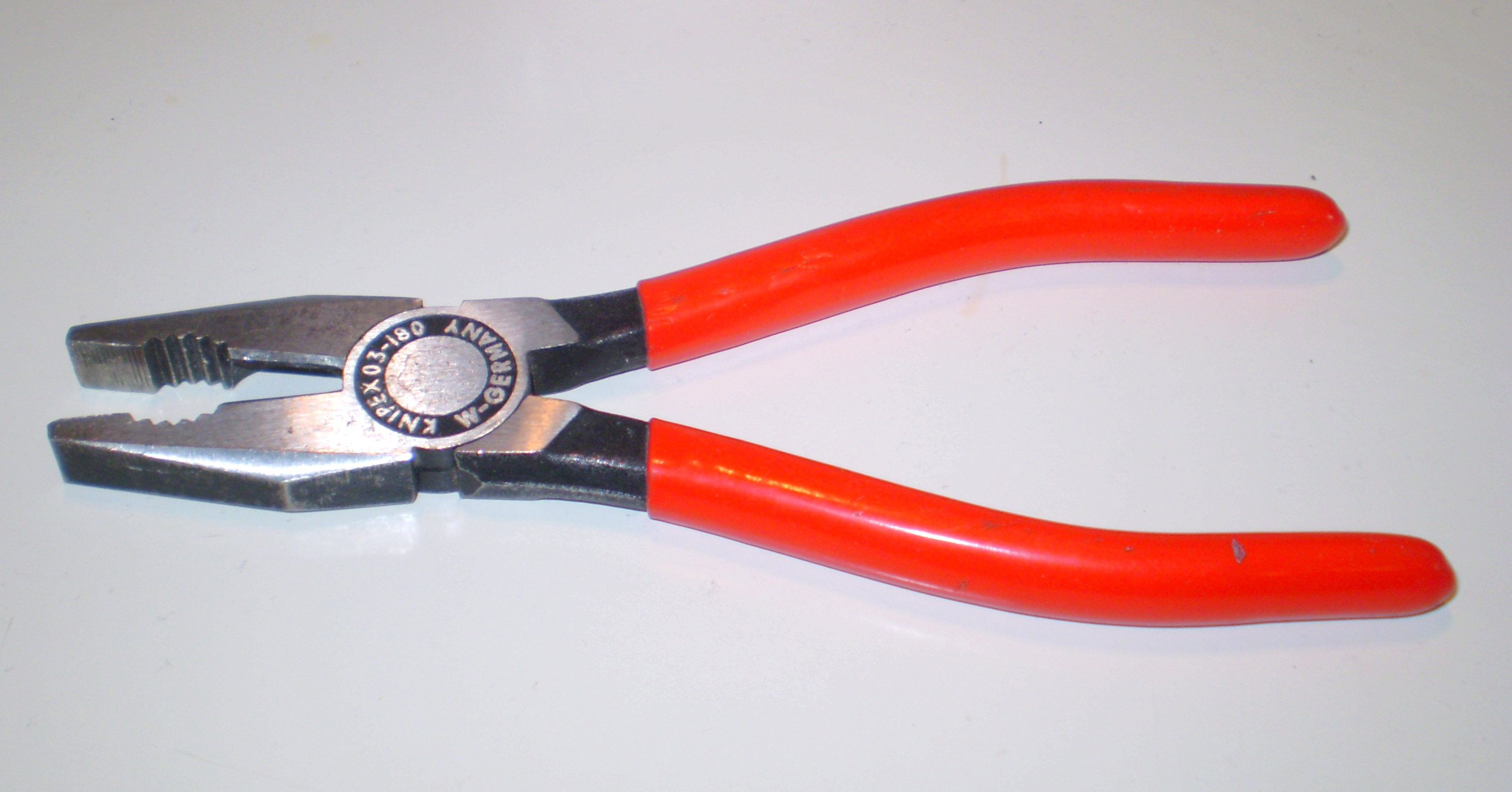 Tongs